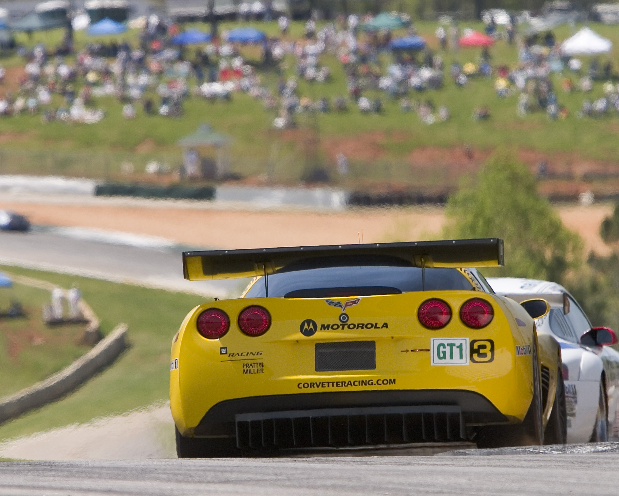 2005 Grand Prix of Atlanta, Corvette C6.R